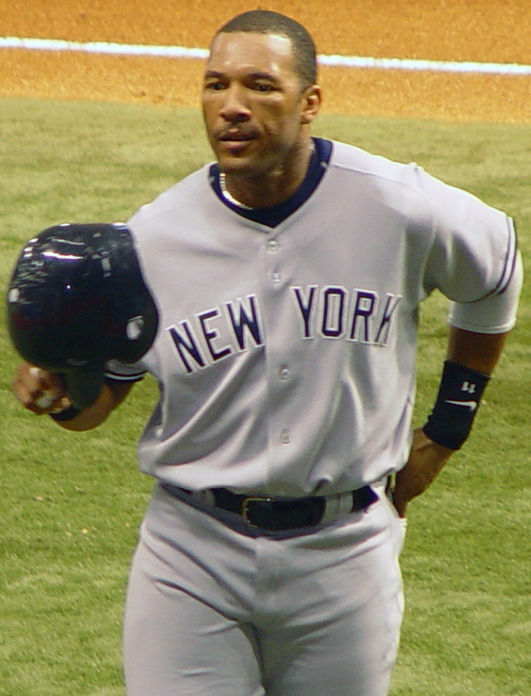 Gary Sheffield 23:37, 26 October 2005 . . Googie man . . 763×1000 (388,368 bytes)